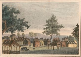 An Indian town, residence of a chief "Lithographs of events in the Seminole War in Florida in 1835."